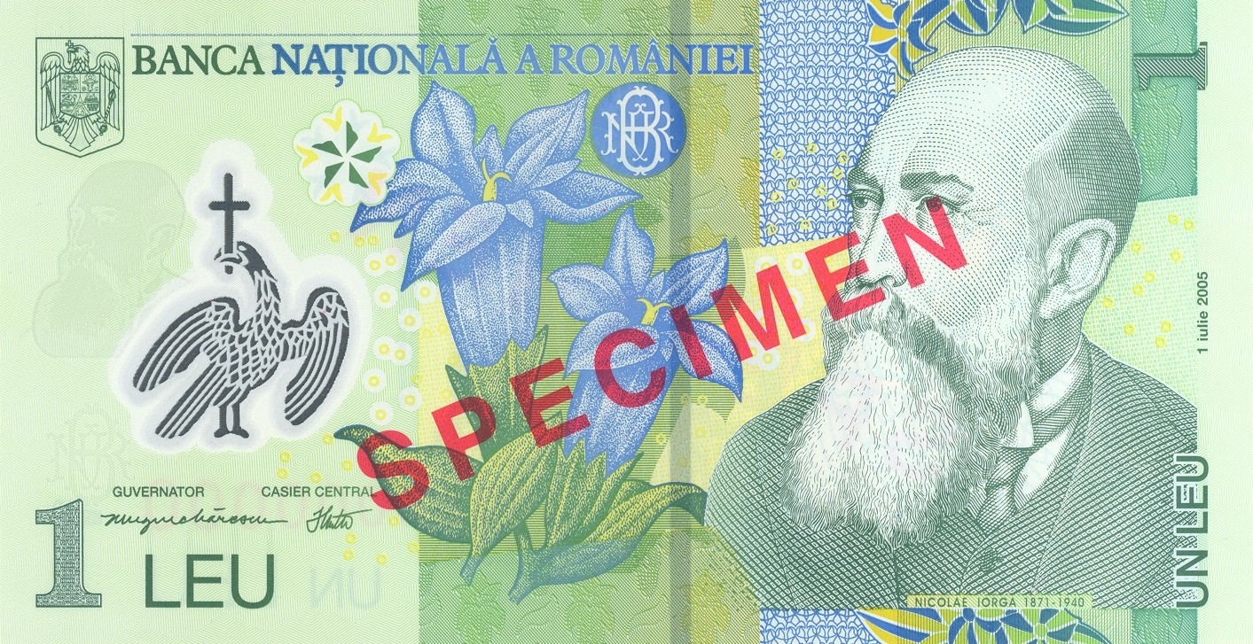 Romanian banknote specimen